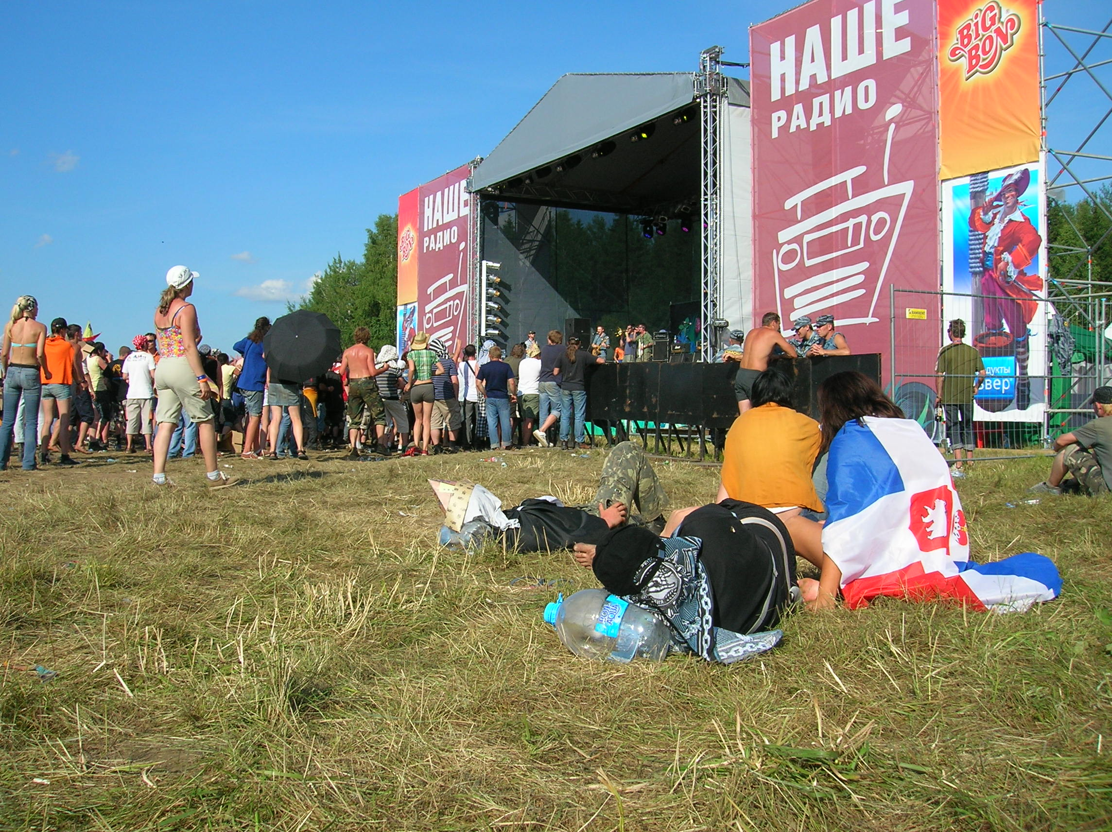 Nashestvie-fest 2009